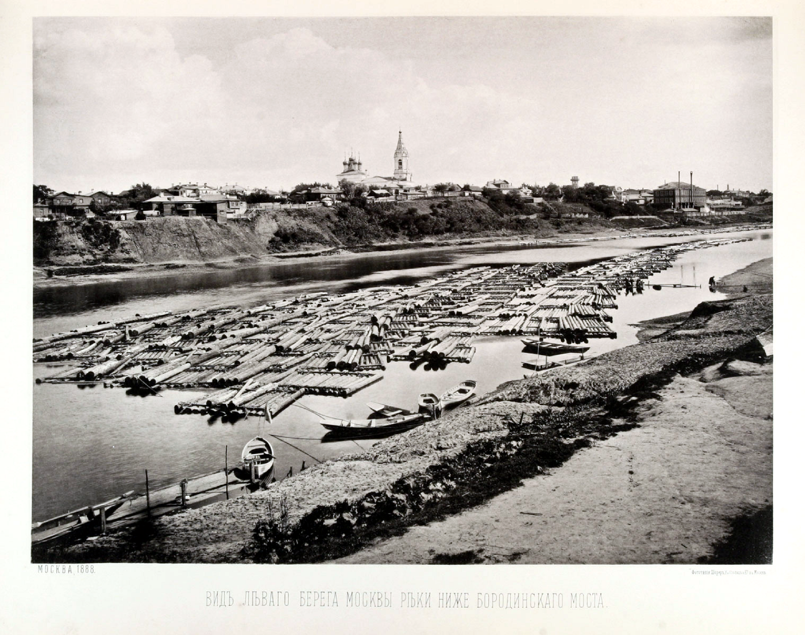 Plate 19: Left bank of Moskva River from the old Borodinsky bridge, Moscow. Present-day Rostovskaya Embankment.